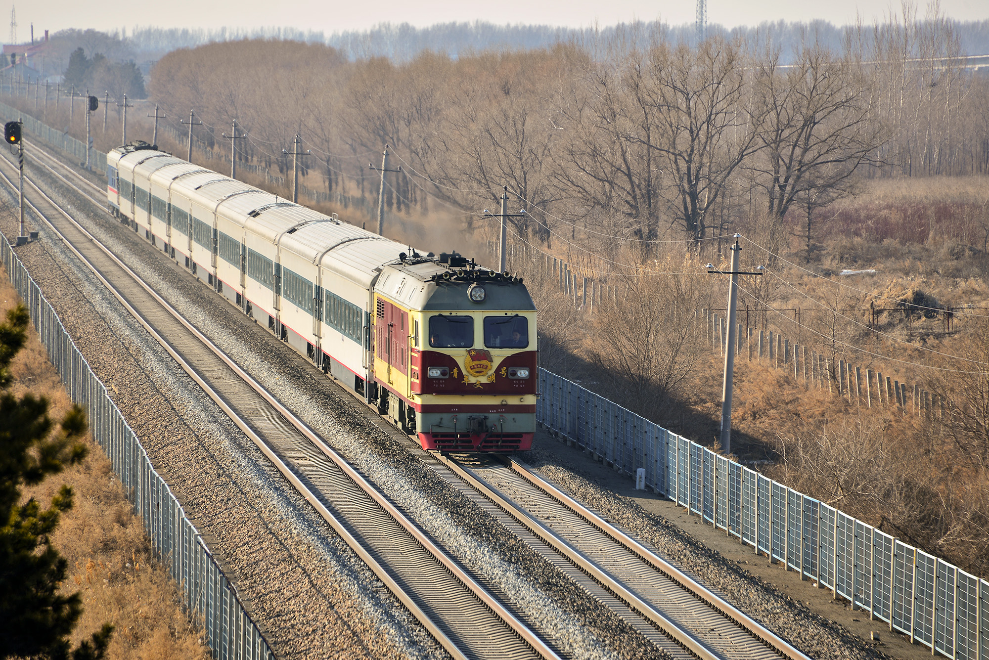 luxury passenger train from Qiqihar to Harbin K7202